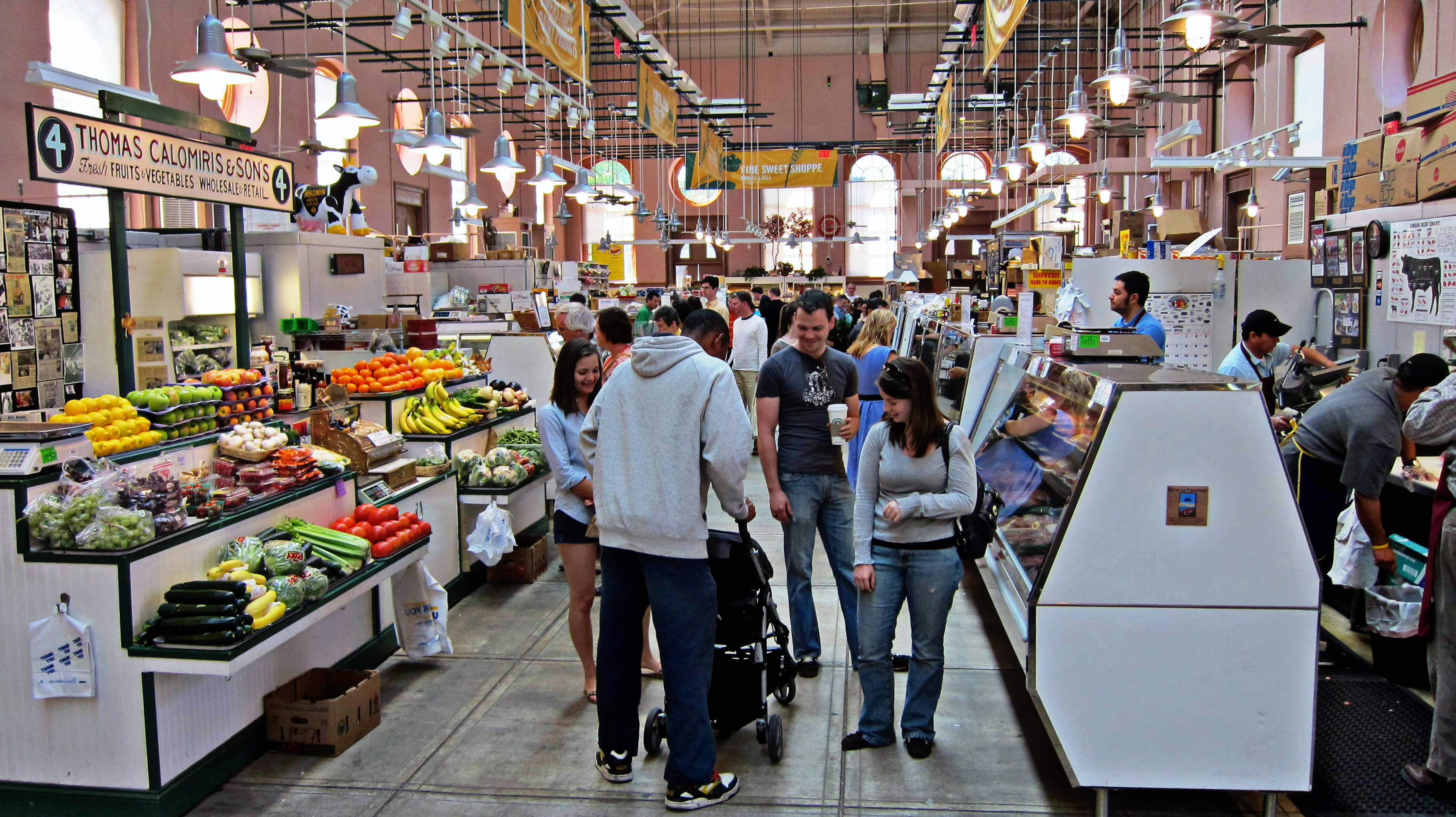 The interior of Eastern Market, located at the intersection of 7th and C Streets, S.E., in the Capitol Hill neighborhood of Washington, D.C. Built 1871–1873 to the designs of noted architect Adolf Cluss, Eastern Market is an example of Italianate architecture. The building was listed on the National Register of Historic Places (NRHP) in 1971, and is designated as a contributing property to the Capitol Hill Historic District, listed on the NRHP in 1976.